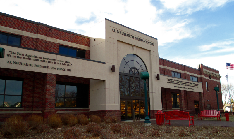 The University of South Dakota's media/radio and journalism building. The Al Neuharth Media Center building is located on the most western campus line. A west facing picture of the main entrance to the building.